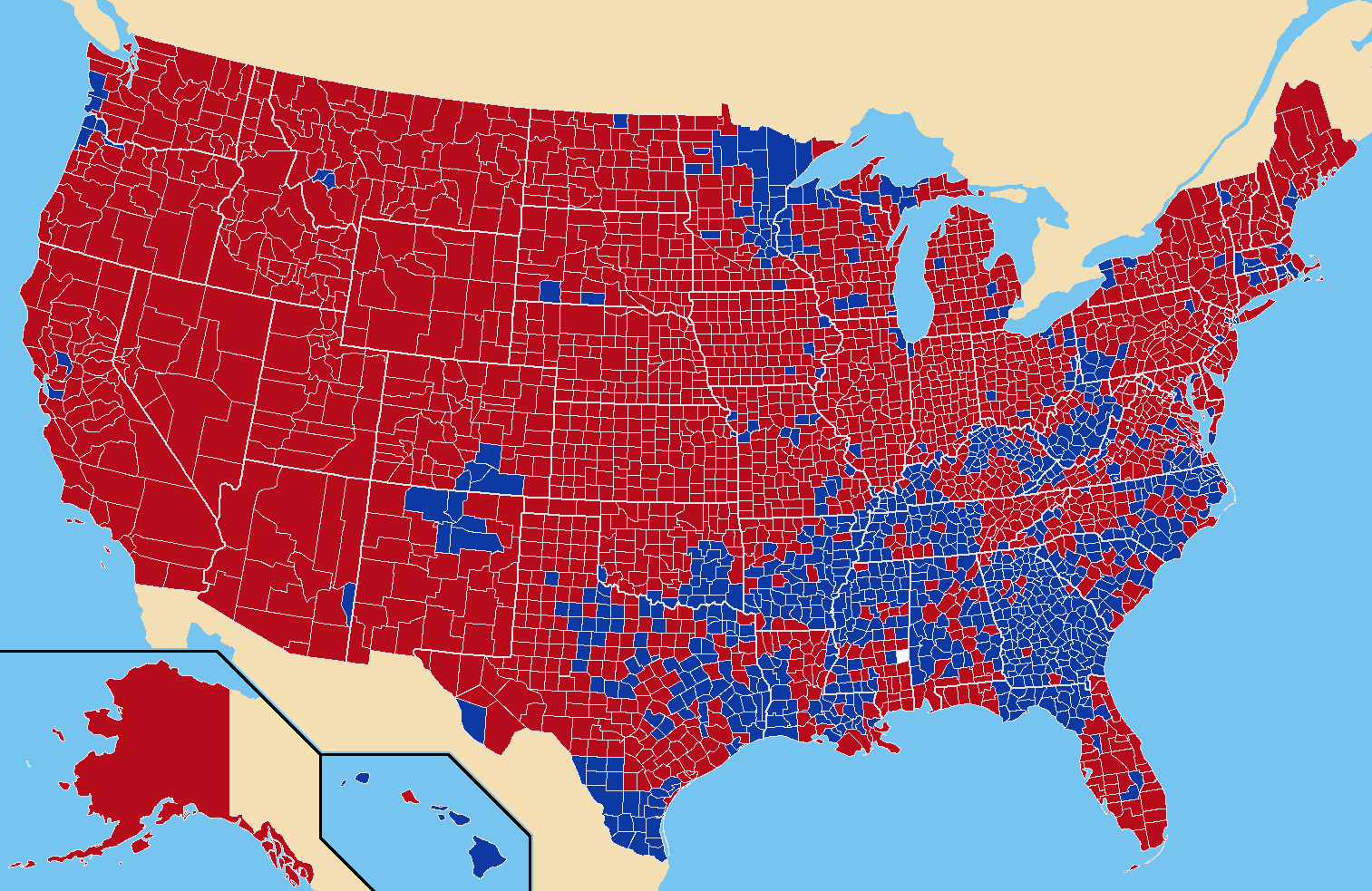 A map of the counties won by each candidate in the United States presidential election.